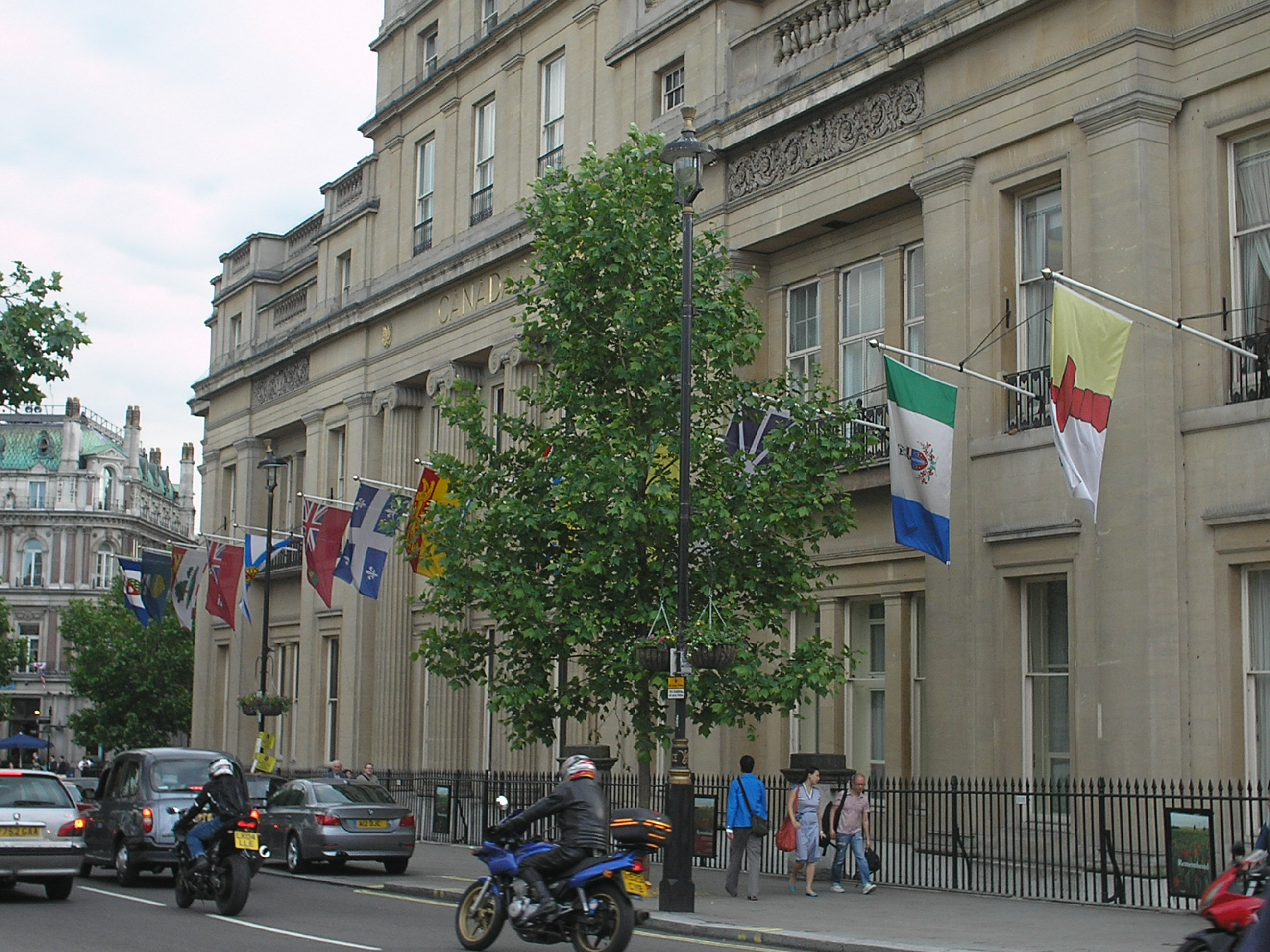 Canada House on Trafalgar Square, one of the two buildings of the High Commission of Canada in London, United Kingdom.